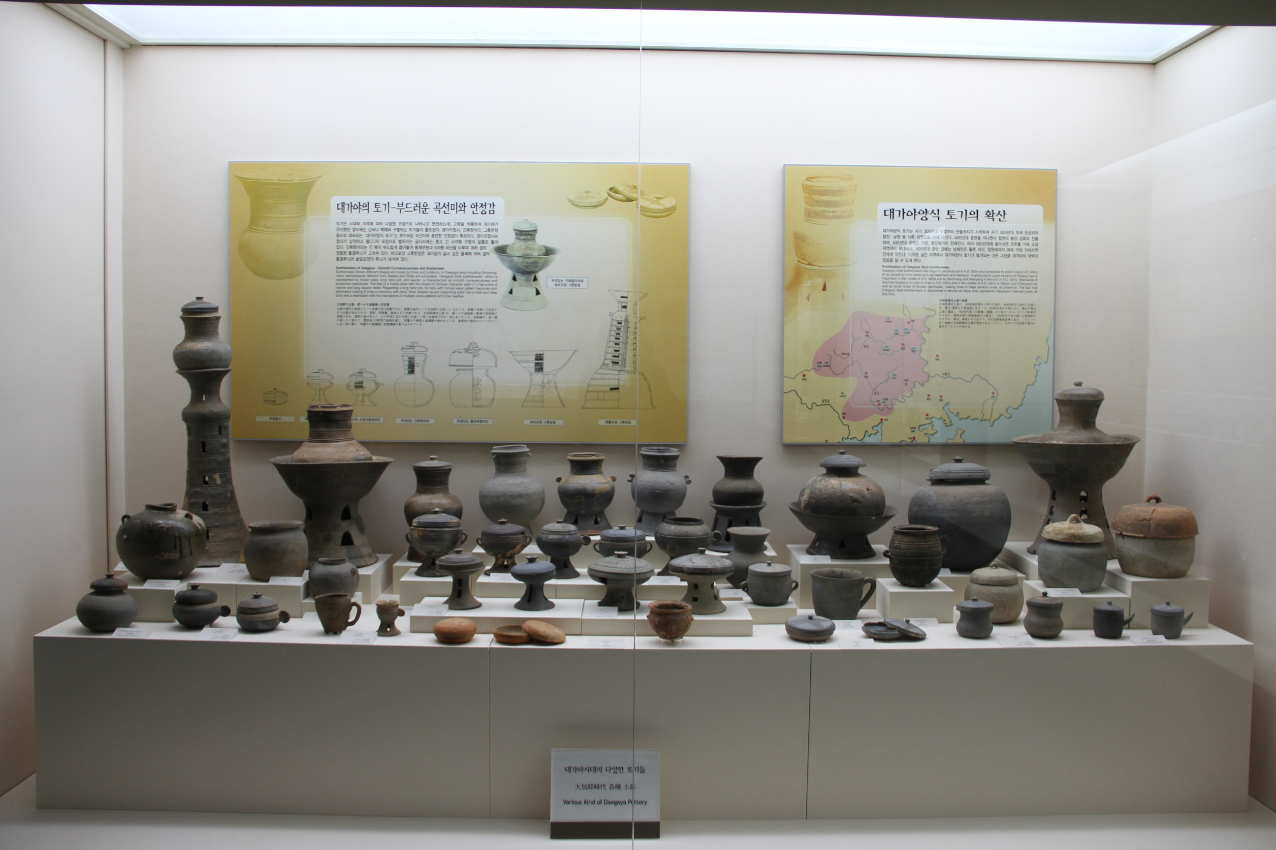 Earthenwares collection of Gaya confederacy. The displays are from Daegaya museum in Goryeong, South Korea.